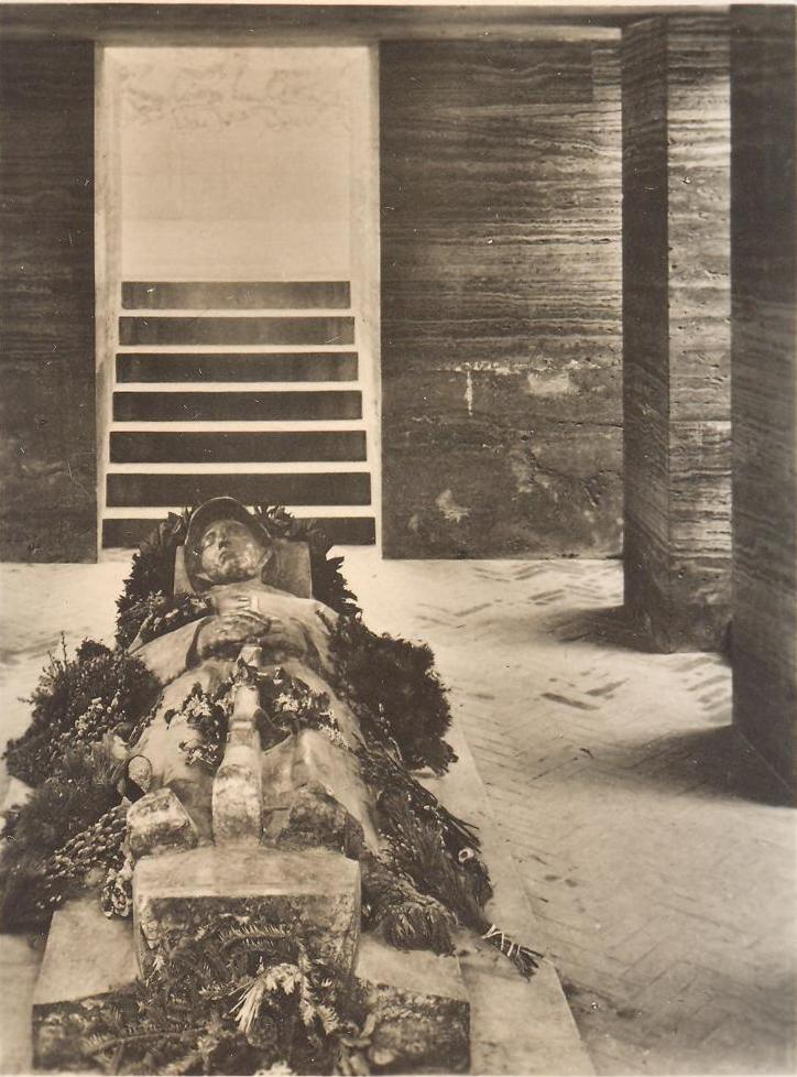 Schlafender Krieger